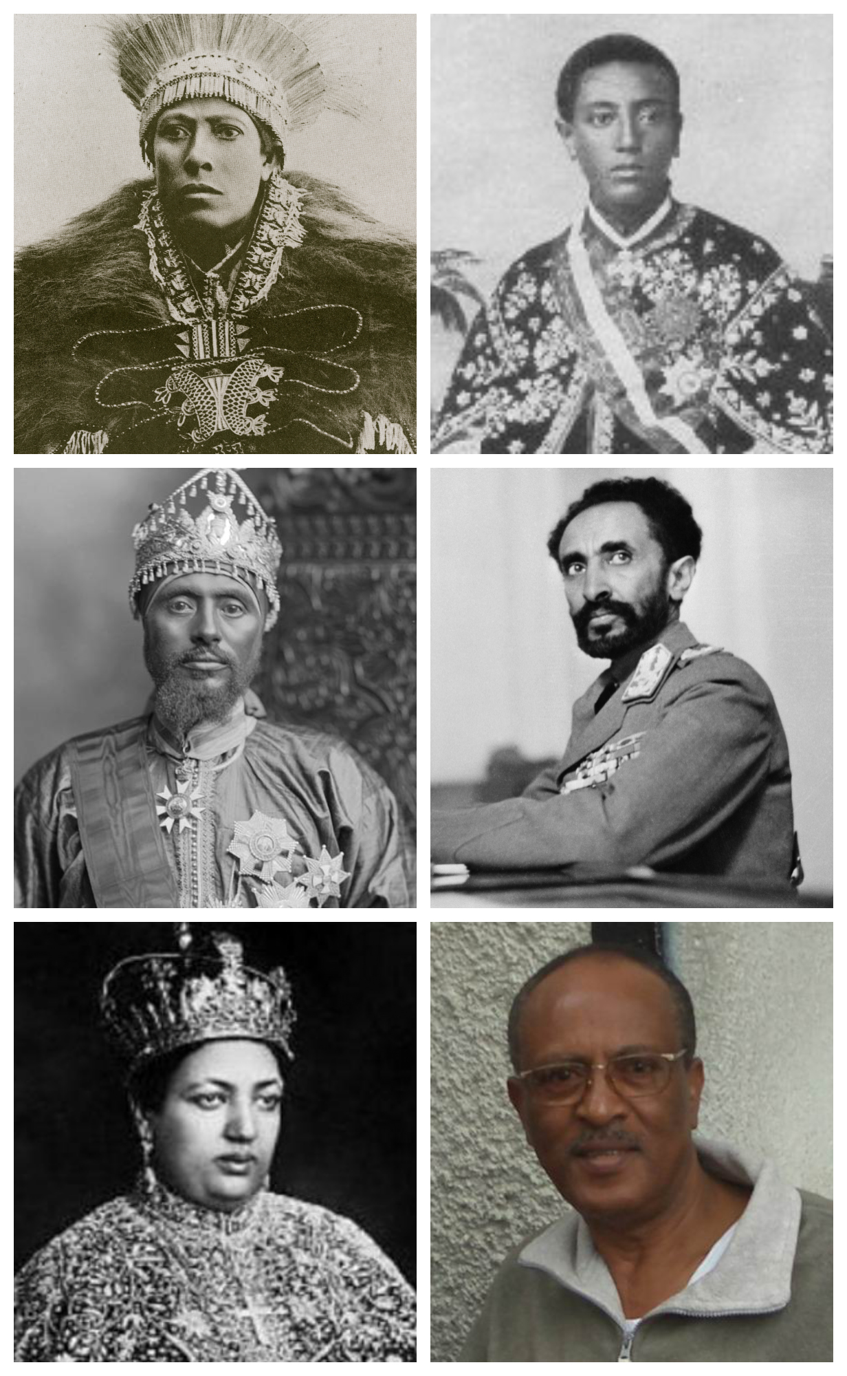 Collage of prominent Oromo people.